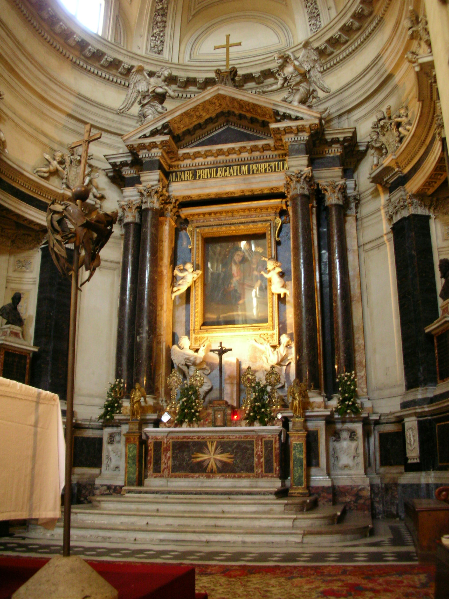 Main Altar, Santa Maria in Montesanto, Rome